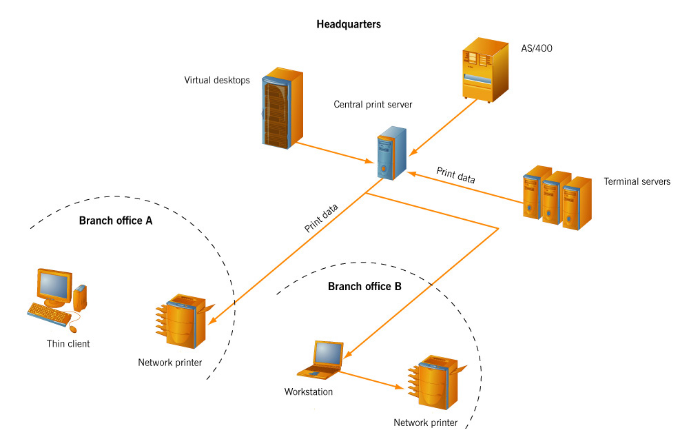 Printing in networks